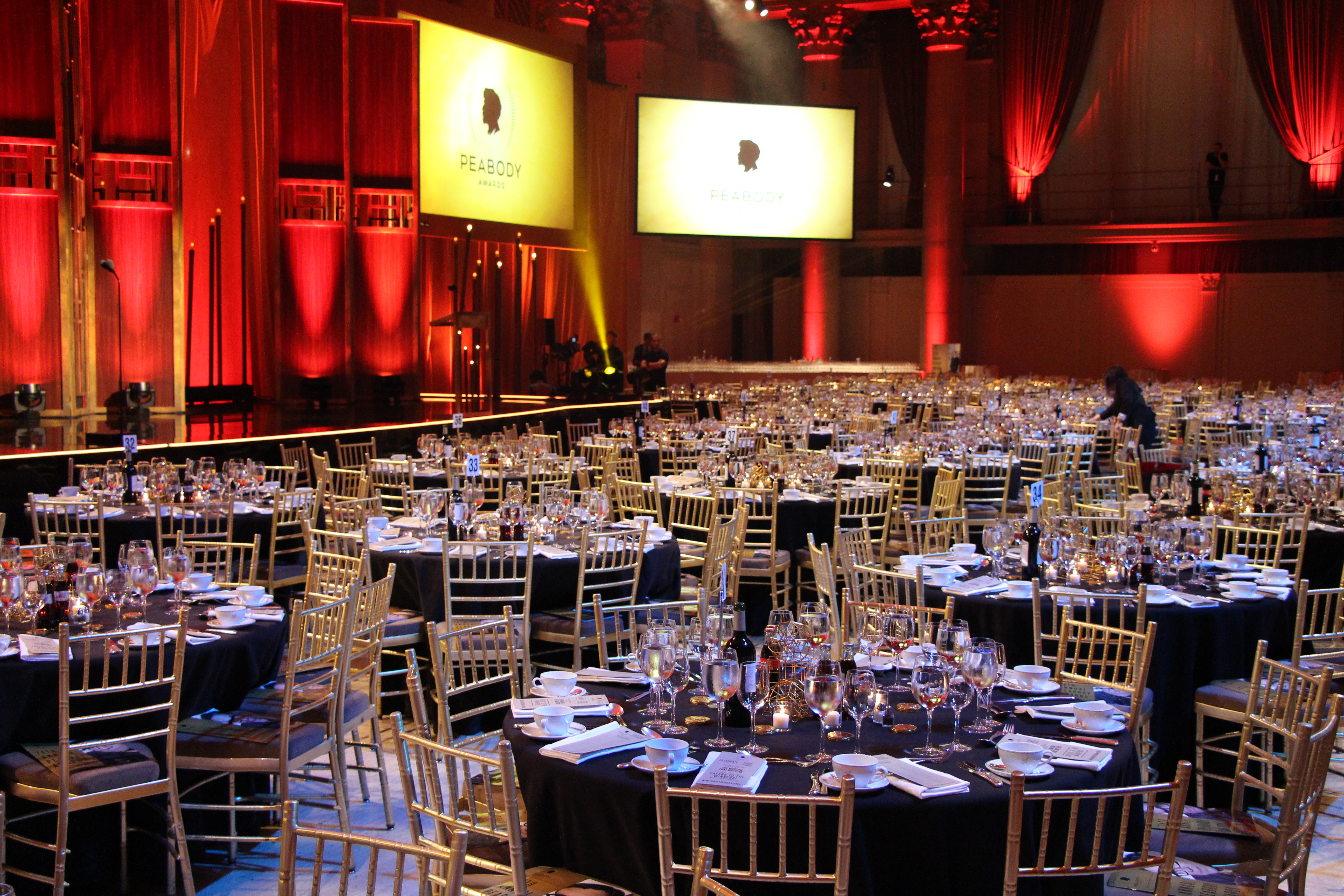 The ballroom at Cipriani Wall Street set up for the ceremony before guests arrived.